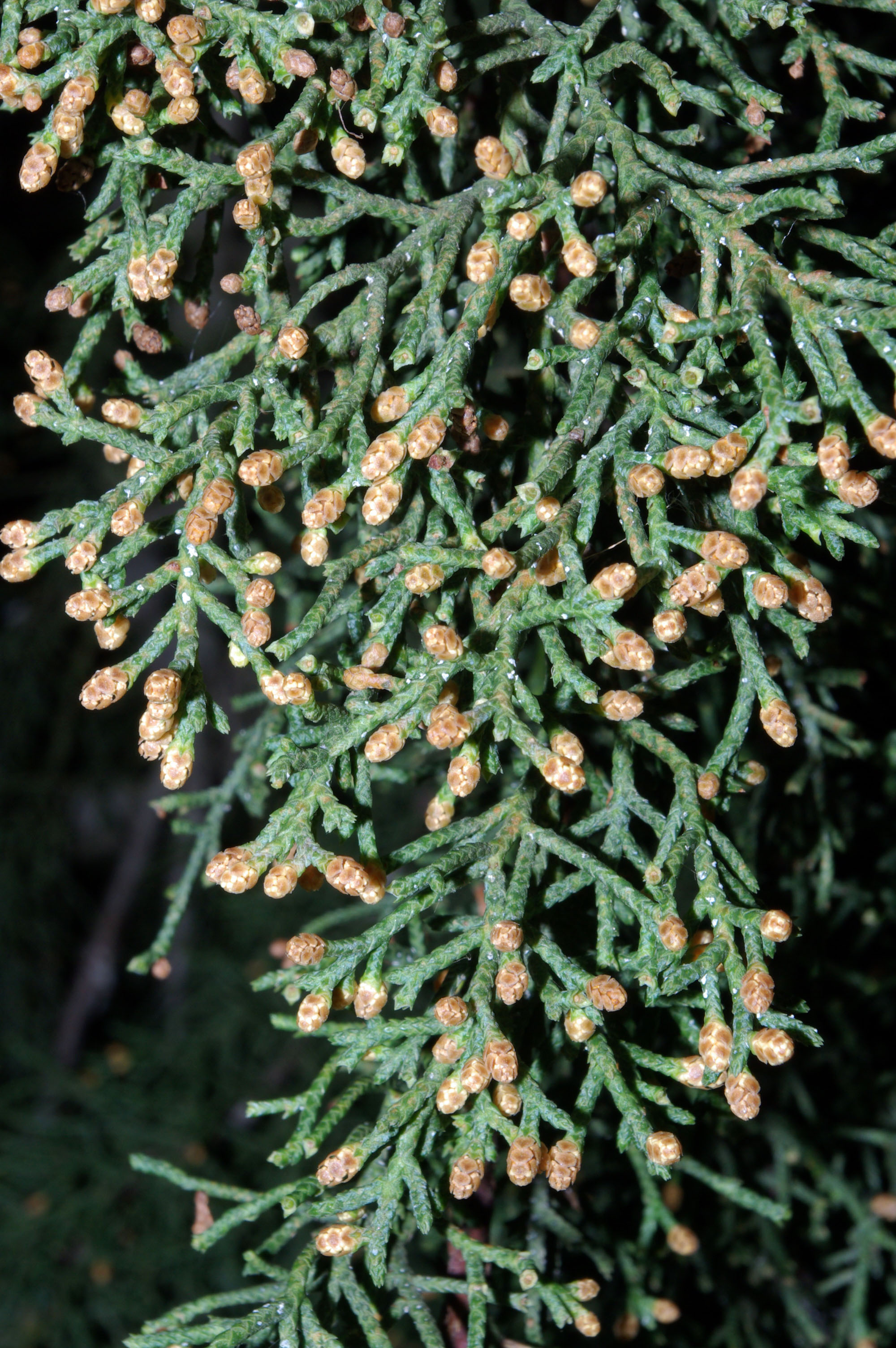 Cupressus glabra, near Sotalbo (Ávila, Spain)